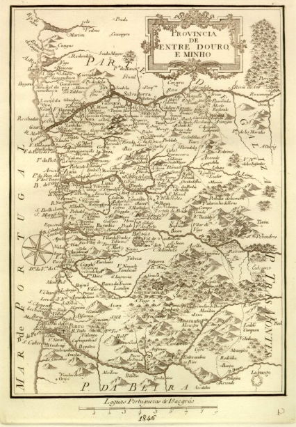 Map of Northern Portuguese region Entre Douro e Minho